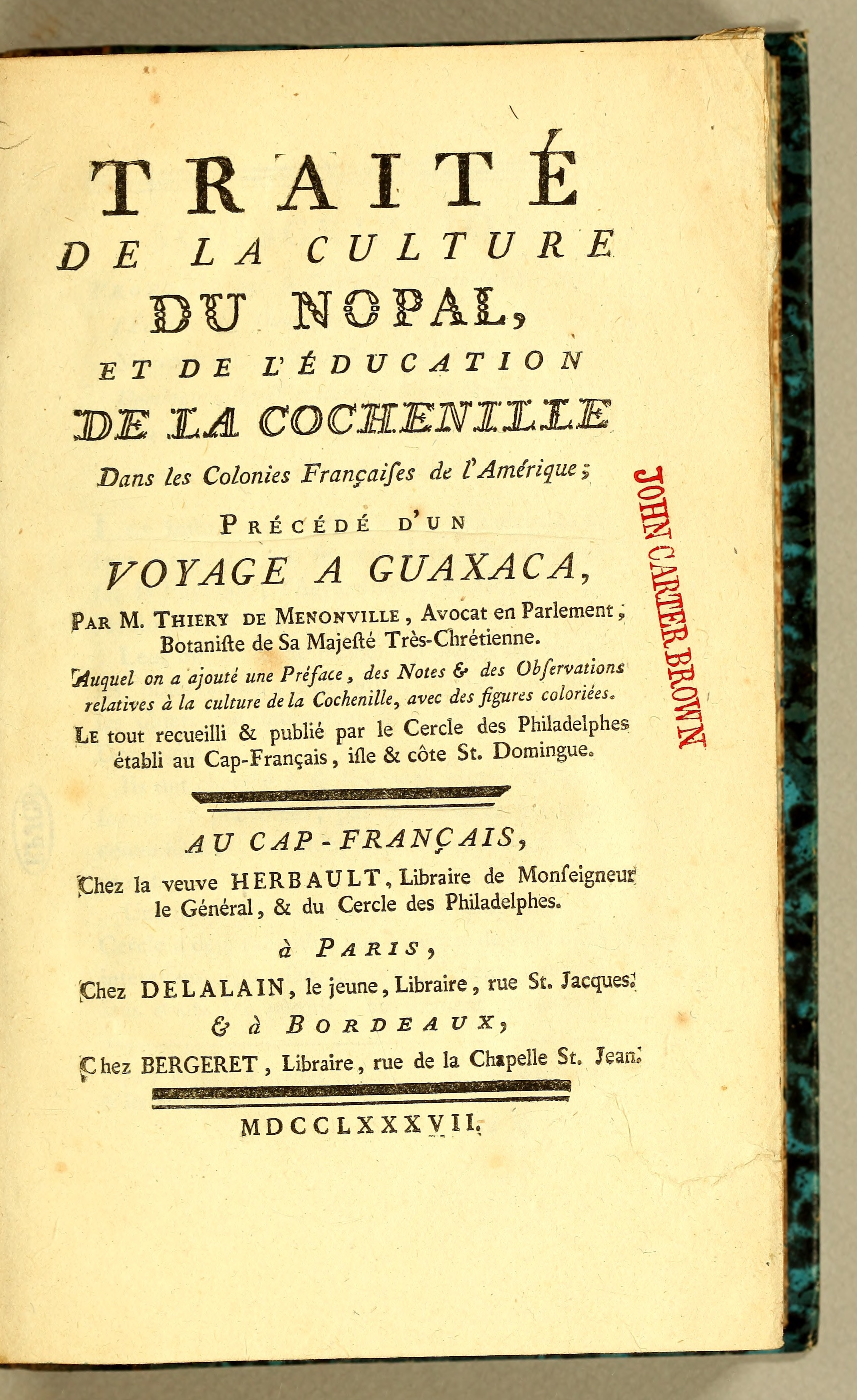 Title page of Nicolas-Joseph Thiéry de Menonville's Traité de la culture du nopal, et de l'éducation de la cochenille dans les colonies françaises de l'Amérique; précédé d'un Voyage a Guaxaca (1787)